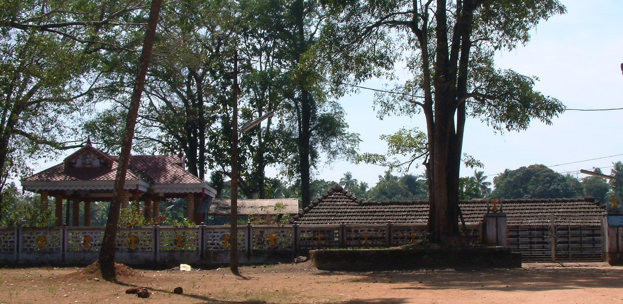 Kannampuzha temple